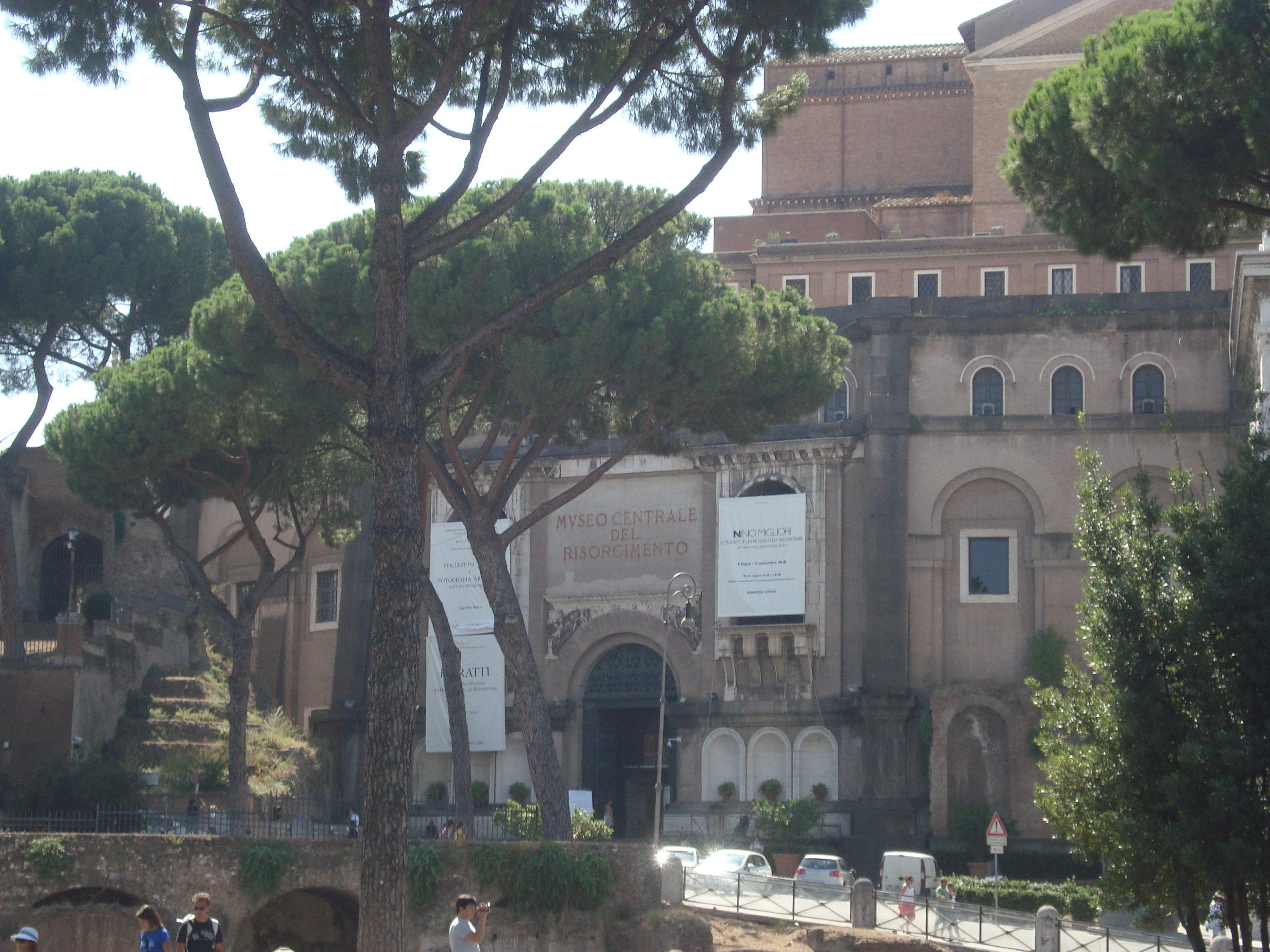 The Museo Centrale del Risorgemento in Rome